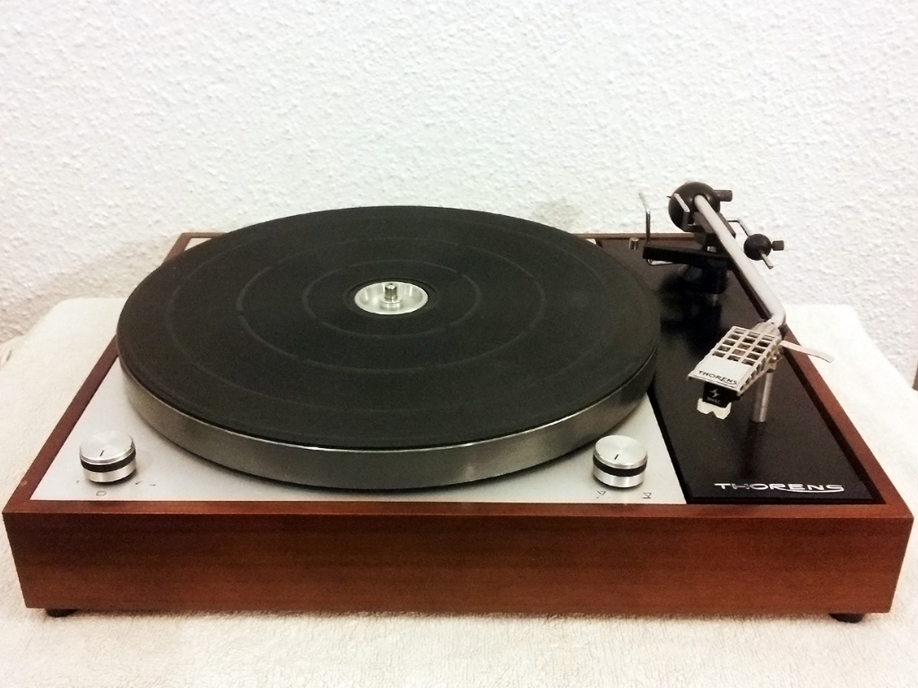 Thorens TD150 MkII + TP13a tonearm + Shure M44C